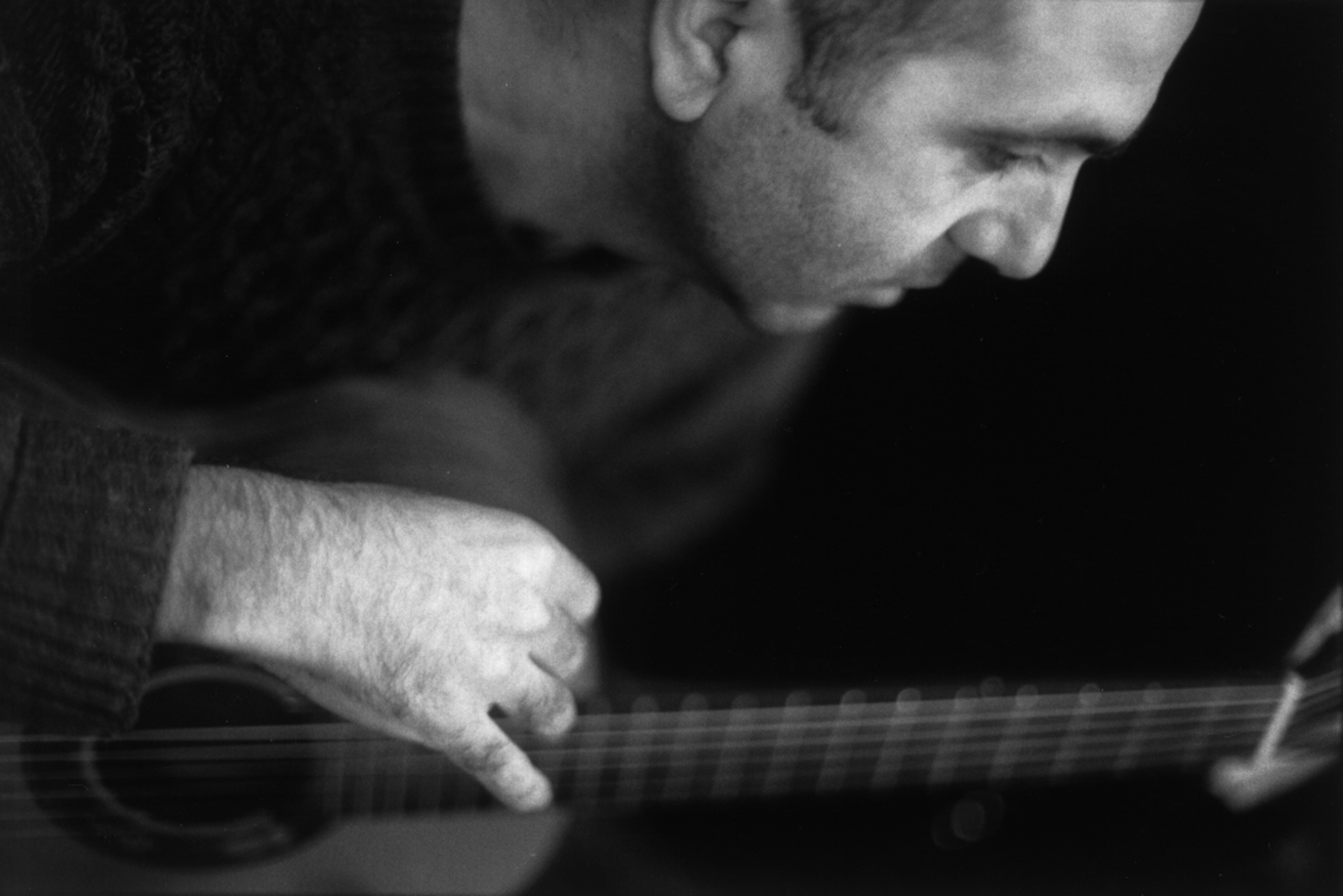 with classic guitar